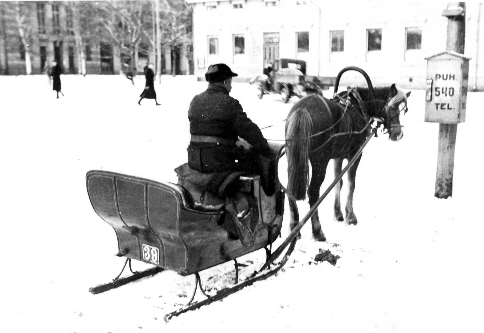 A horse-drawn taxi sleigh in Vaasa in the 1920's. Note the 3-digit phone number 540 for taxi on the phone box.